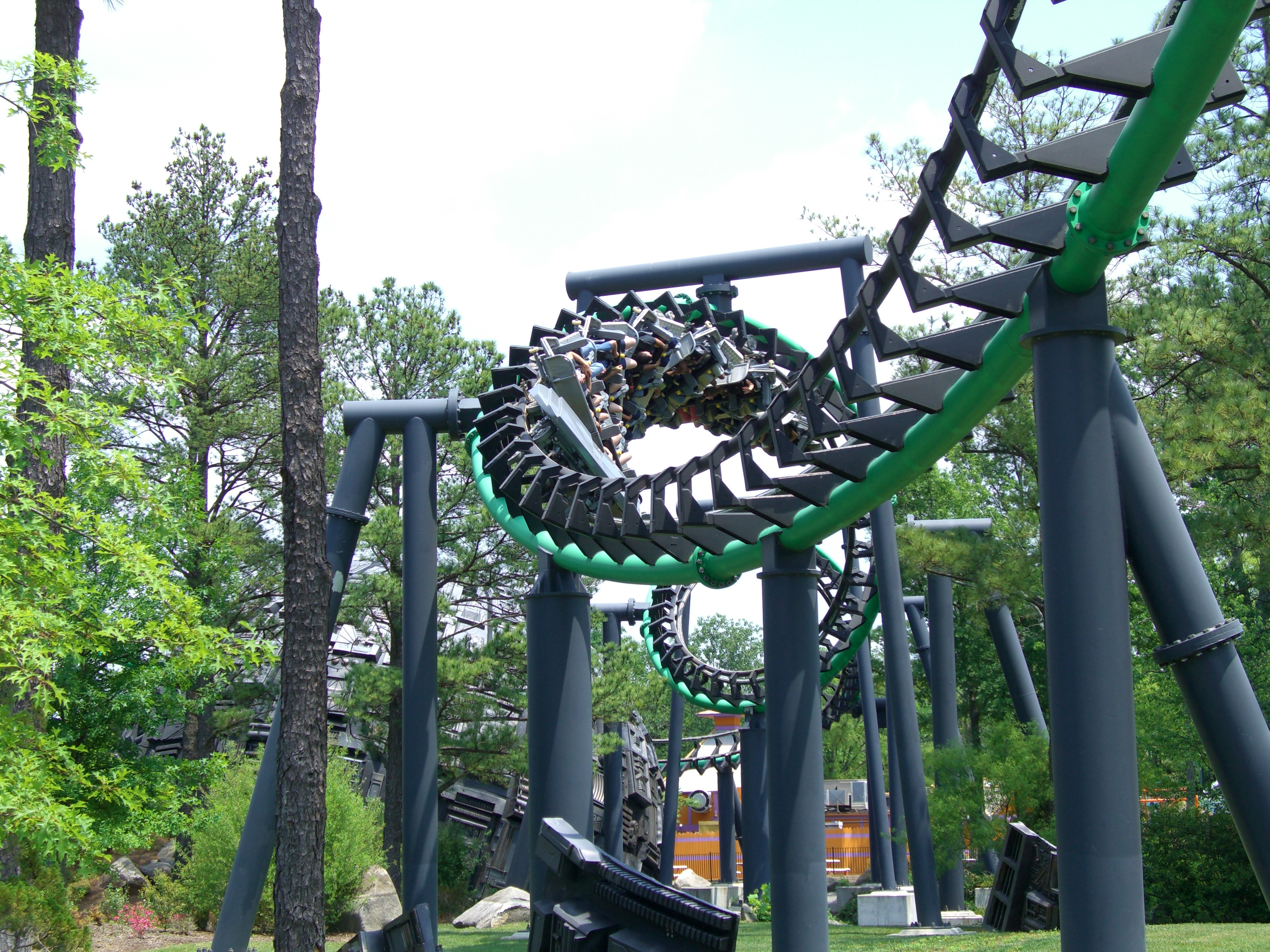 Nighthawk's second of two corkscrews at Carowinds. The only requirement of this license is that you give me credit, otherwise the image is free.